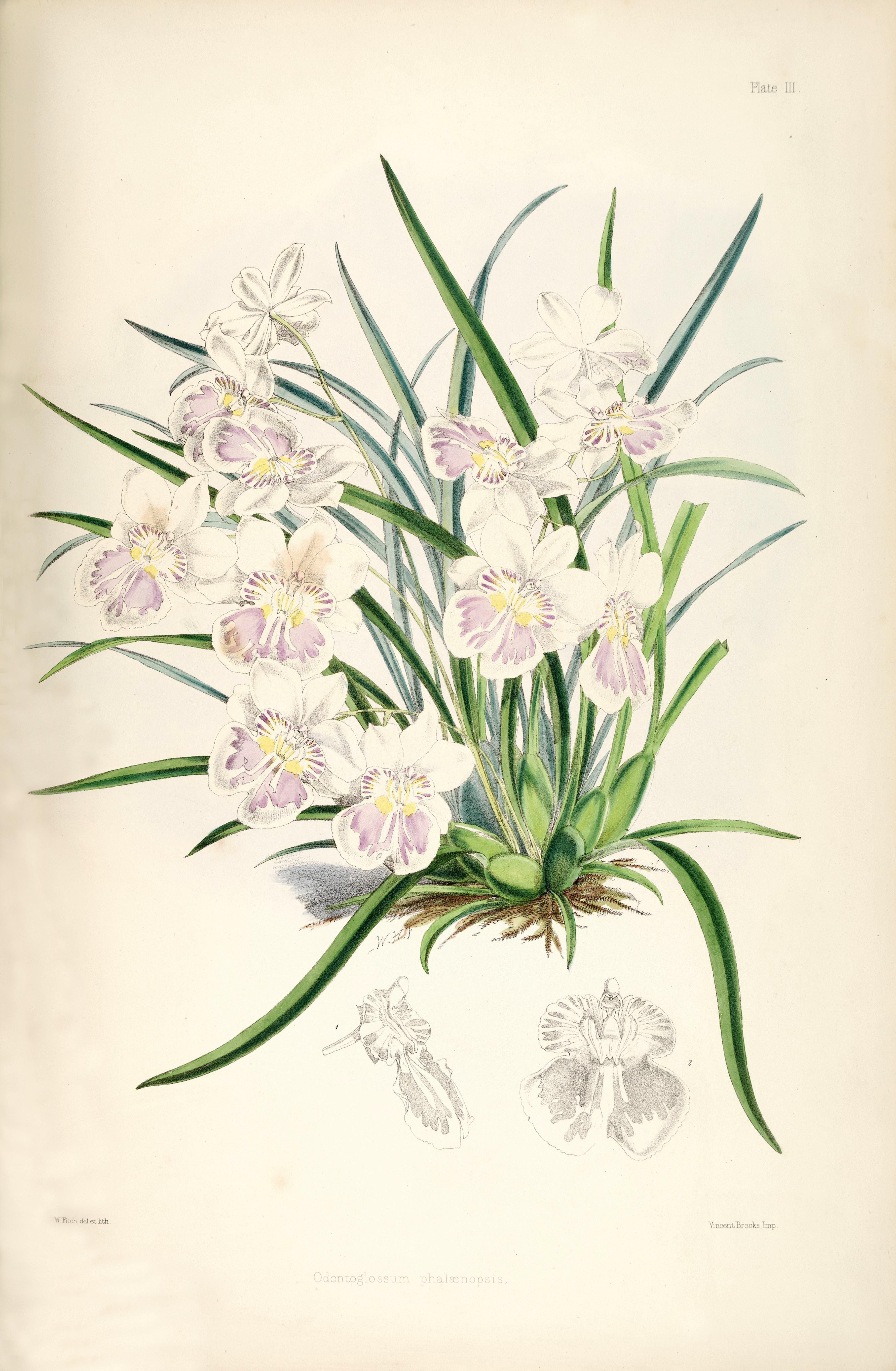 Illustration of Miltoniopsis phalaenopsis (as syn. Odontoglossum phalaenopsis)